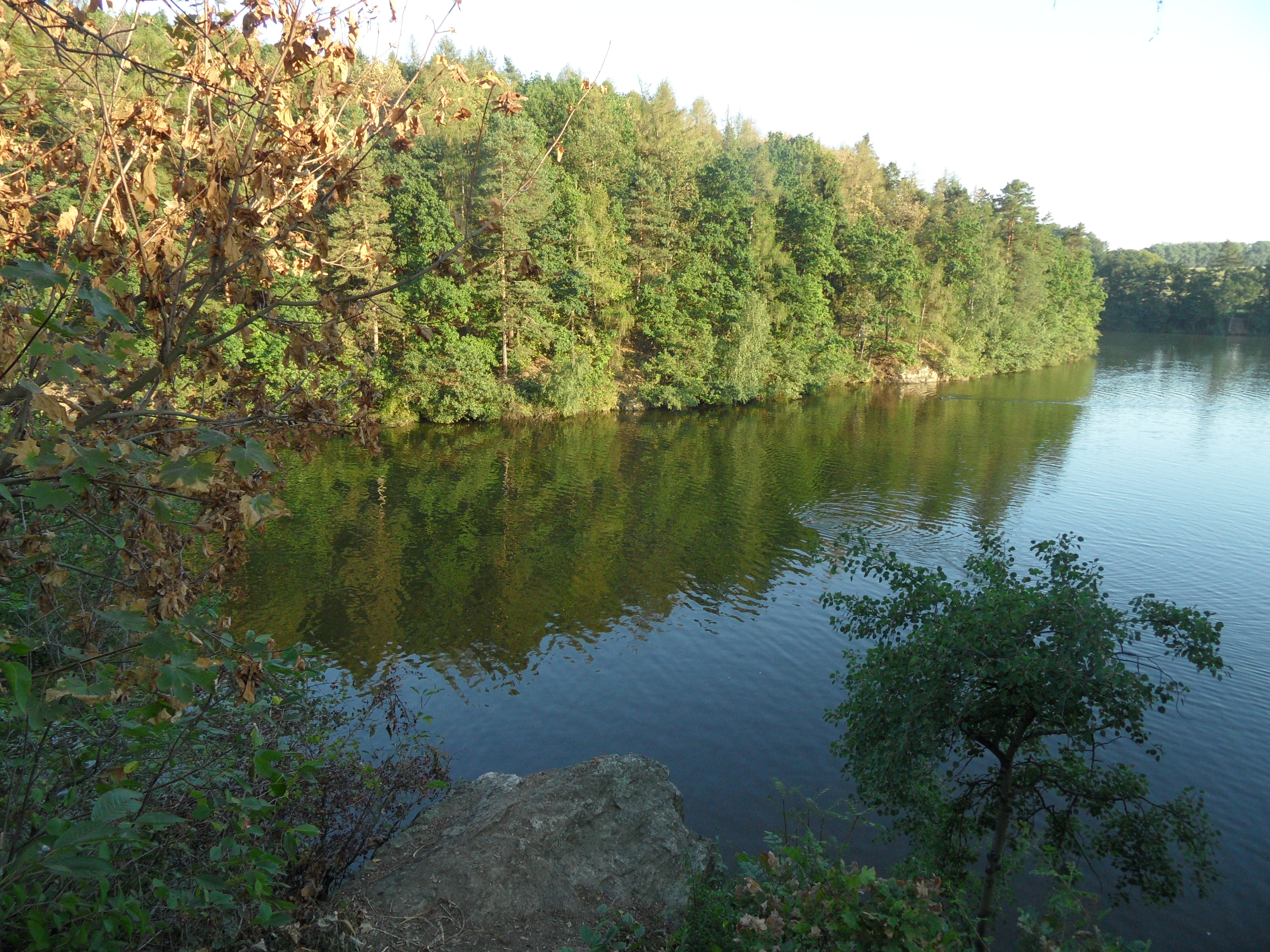 Velký rybník near Kutná Hora A. View from North-West Bank with Rocks to East Bank. Kutná Hora District, the Czech Republic. �